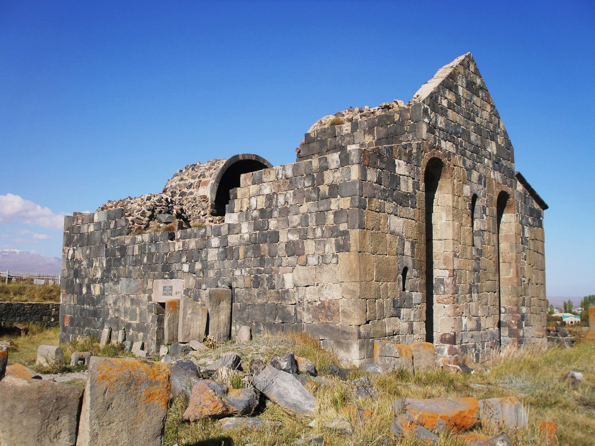 Kotavank 66/7